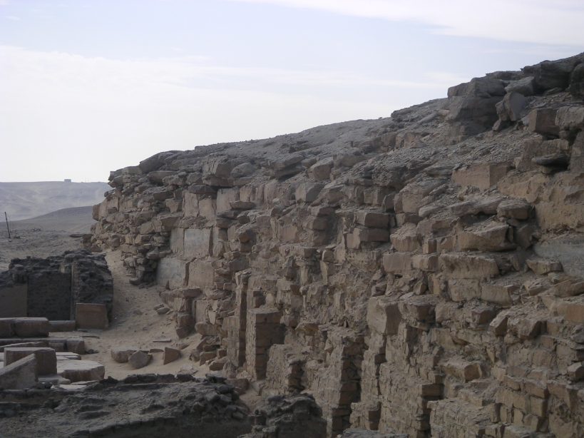 Pyramid of Neferefre, 5th Dynasty, about the early 2450s BC.